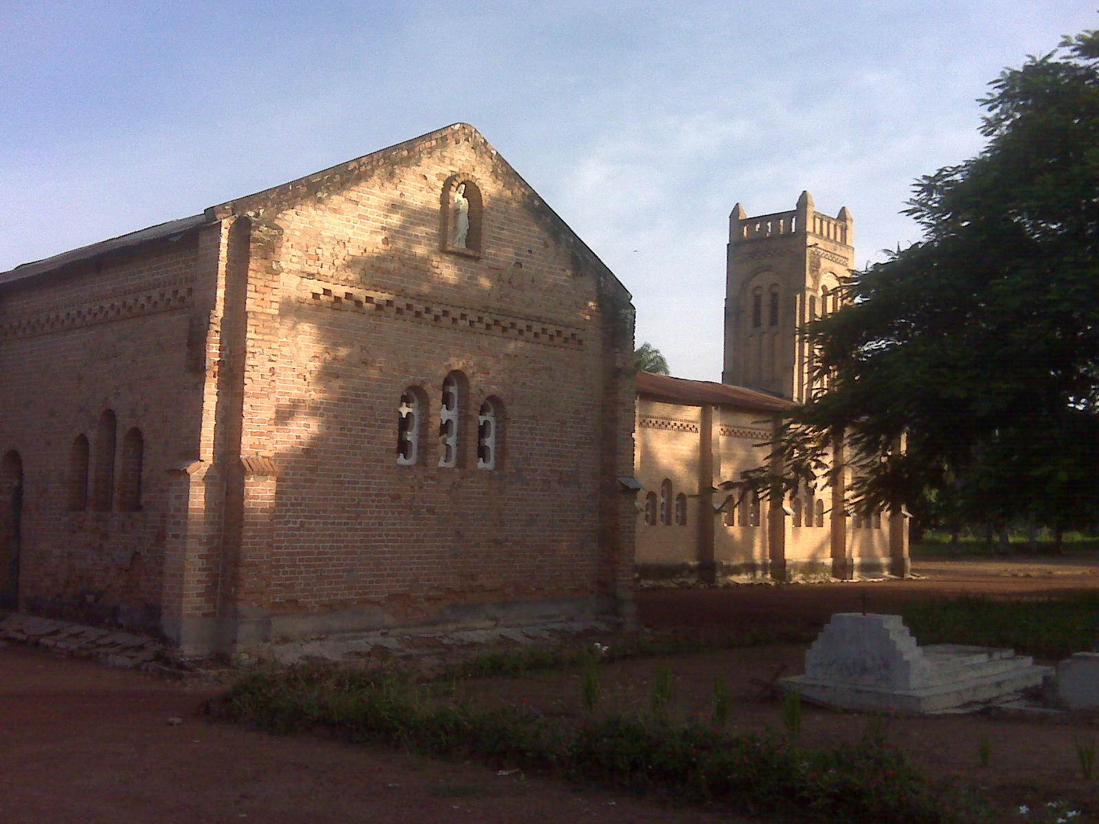 Mission in Doruma (Haut Uélé), RDC